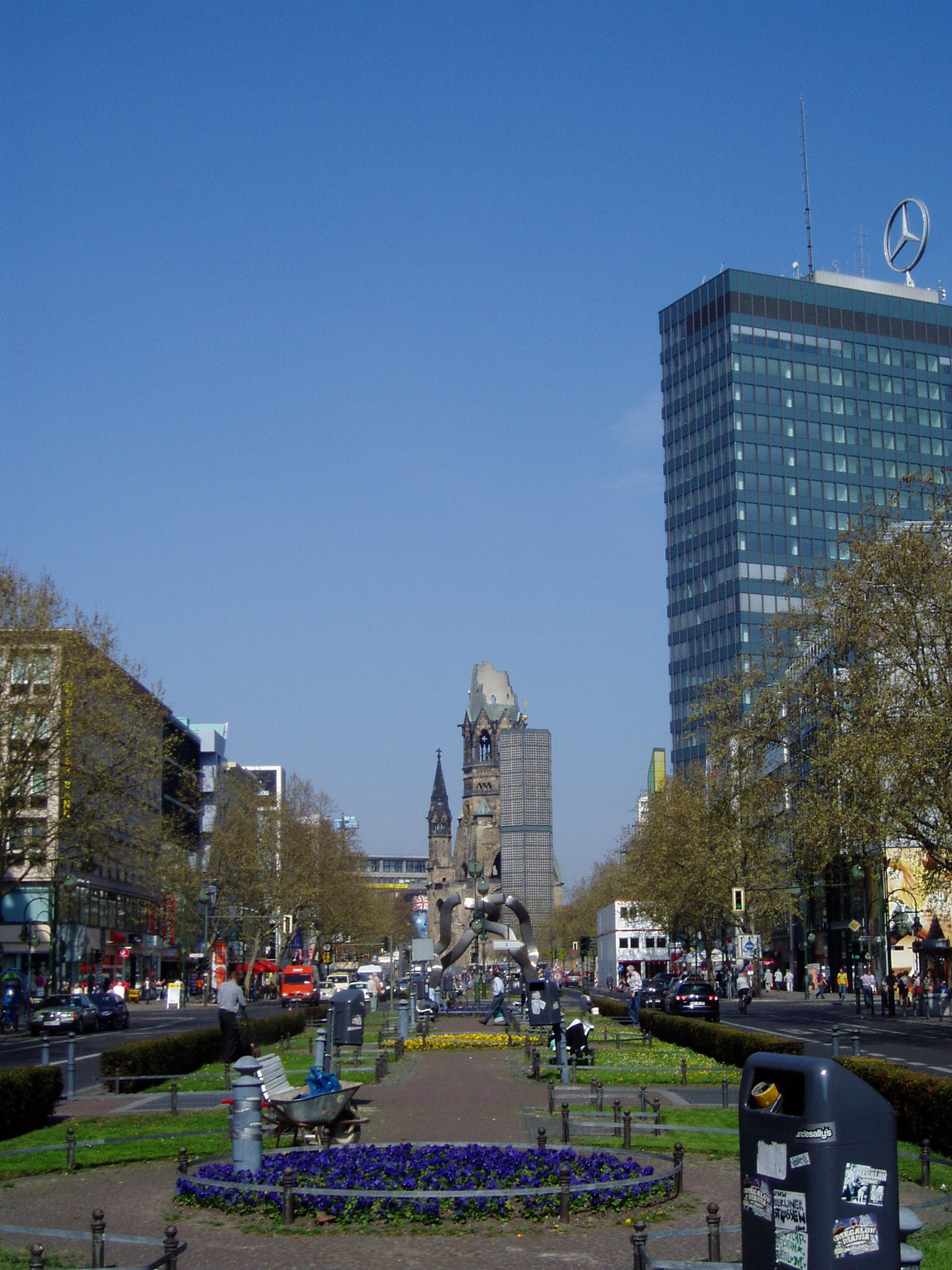 Breitscheidplatz seen from the Tauentzienstraße, Berlin.